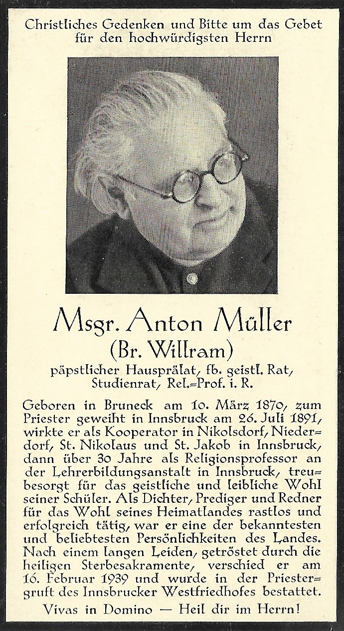 In memoriam card of Anton Müller alias Bruder Willram 1939